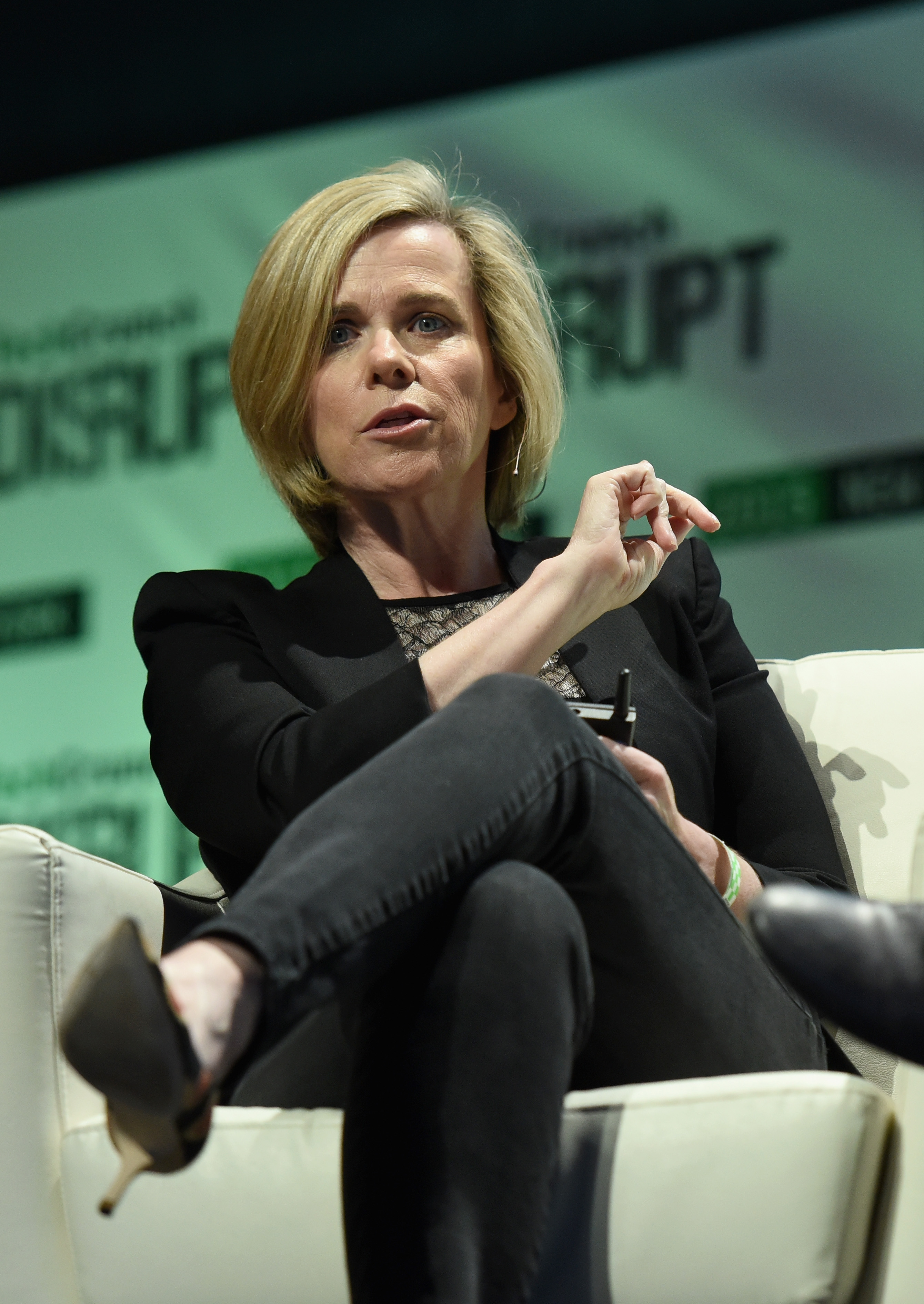 NEW YORK, NY - MAY 04: ?Head of Partnerships at Pinterest, Joanne Bradford speaks during TechCrunch Disrupt NY 2015 - Day 1 at The Manhattan Center on May 4, 2015 in New York City. (Photo by Noam Galai/Getty Images for TechCrunch)